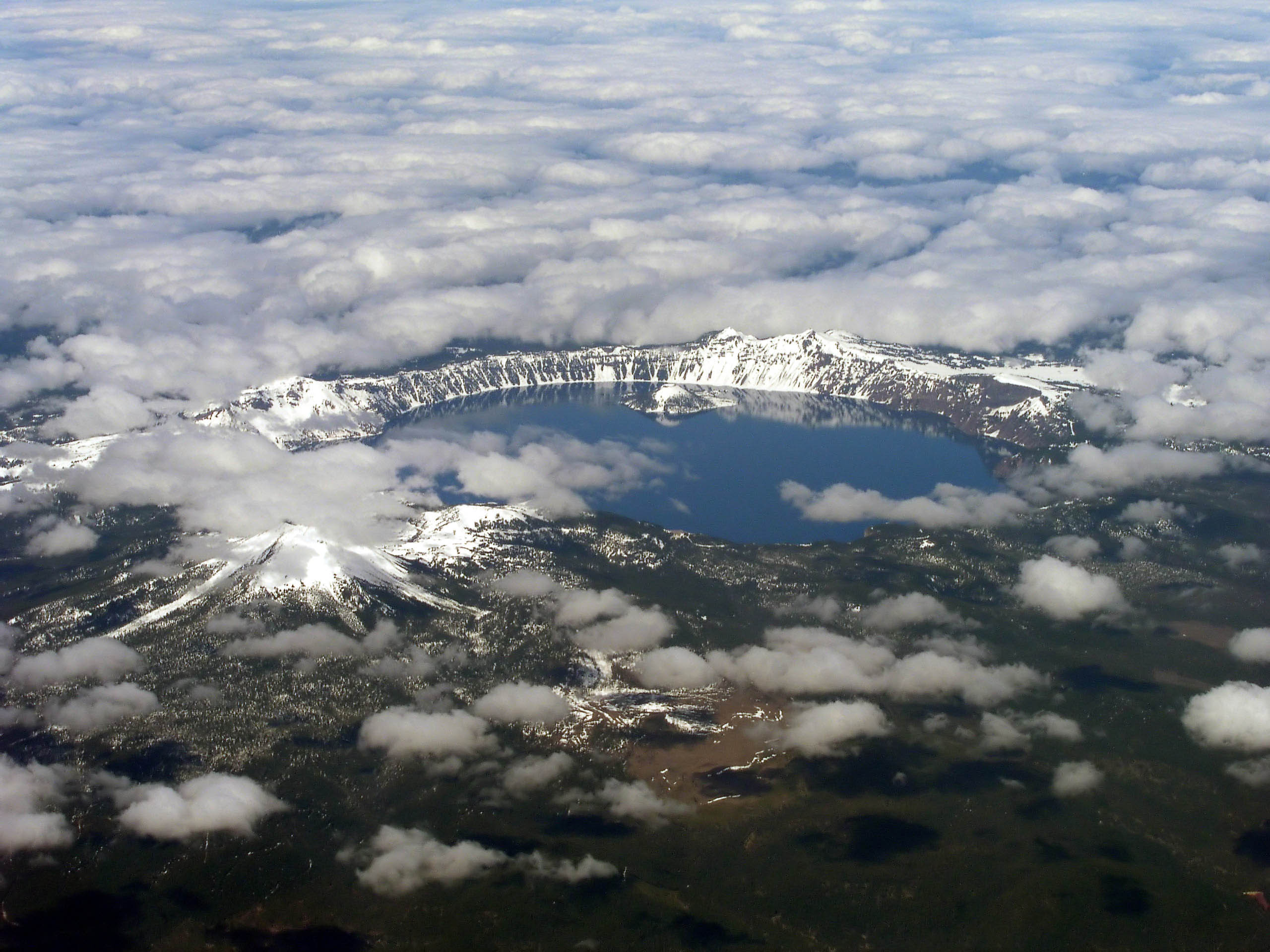 Crater Lake from above